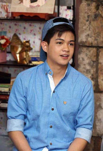 Francis Magundayao at Saranghaeyo.